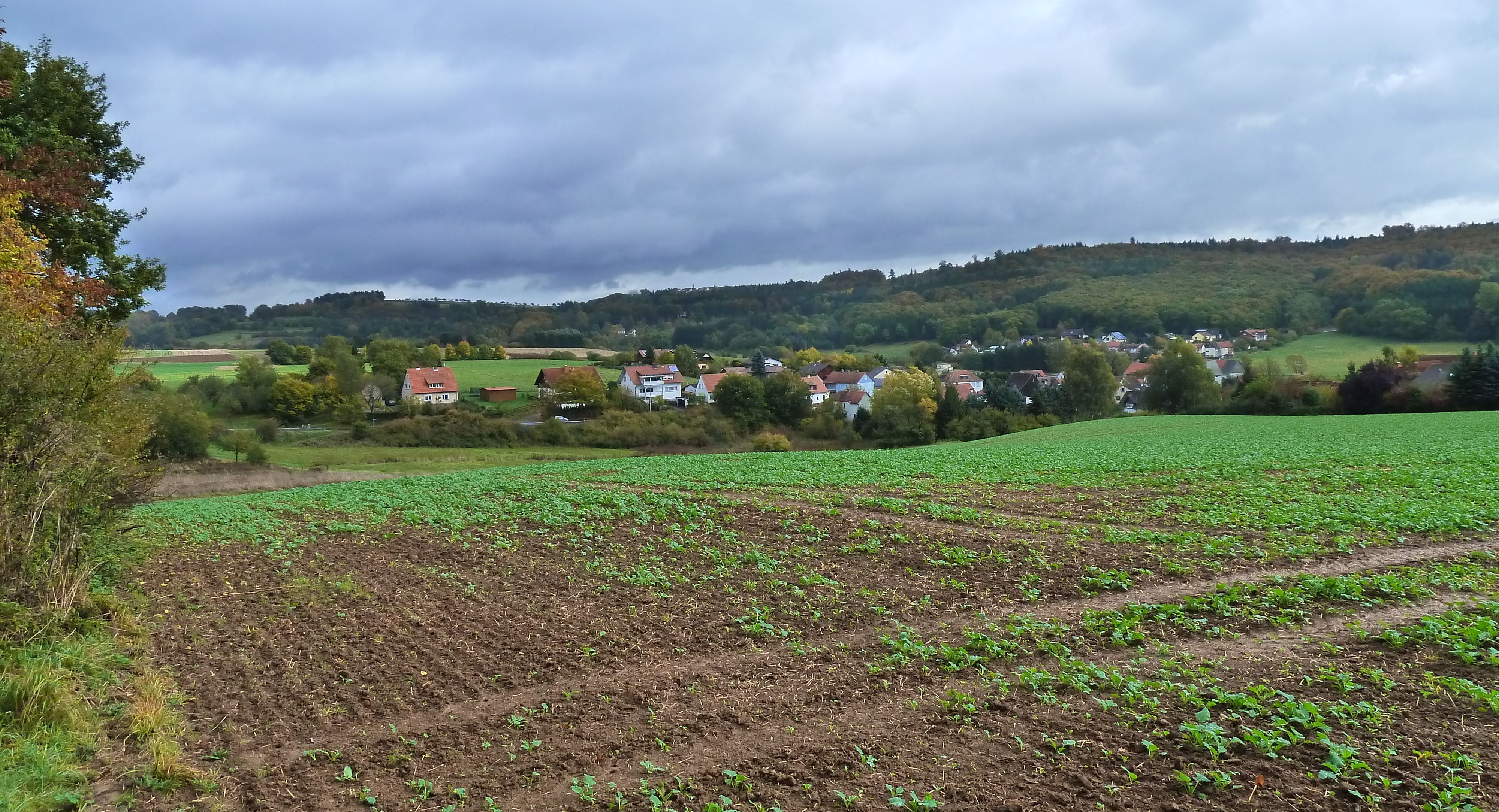 Marburg-Cyriaxweimar sight from west